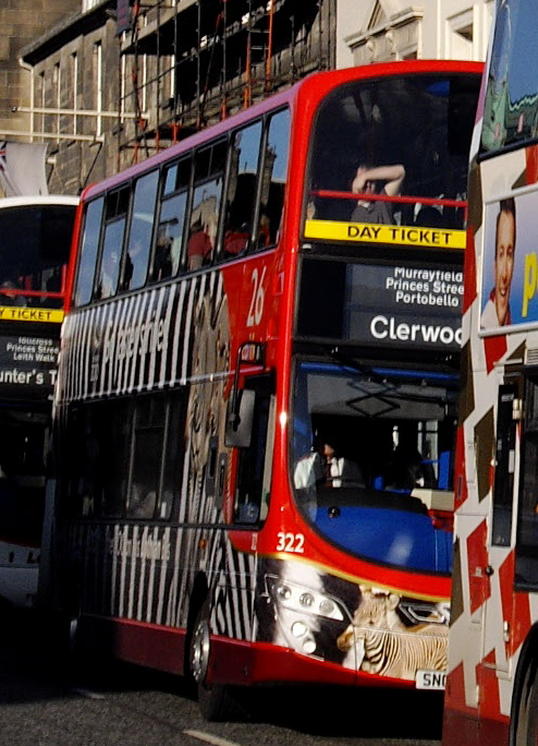 Lothian Buses bus 322 (reg. SN09 CVC), a 2009 Volvo B9TL with Wright Eclipse Gemini 2 bodywork, seen in George Street, Edinburgh, wearing red Connect route branding for Route 26, and also wearing the special 'Zoom to the Zoo' extra branding advertising Edinburgh Zoo, in the Zebra variant